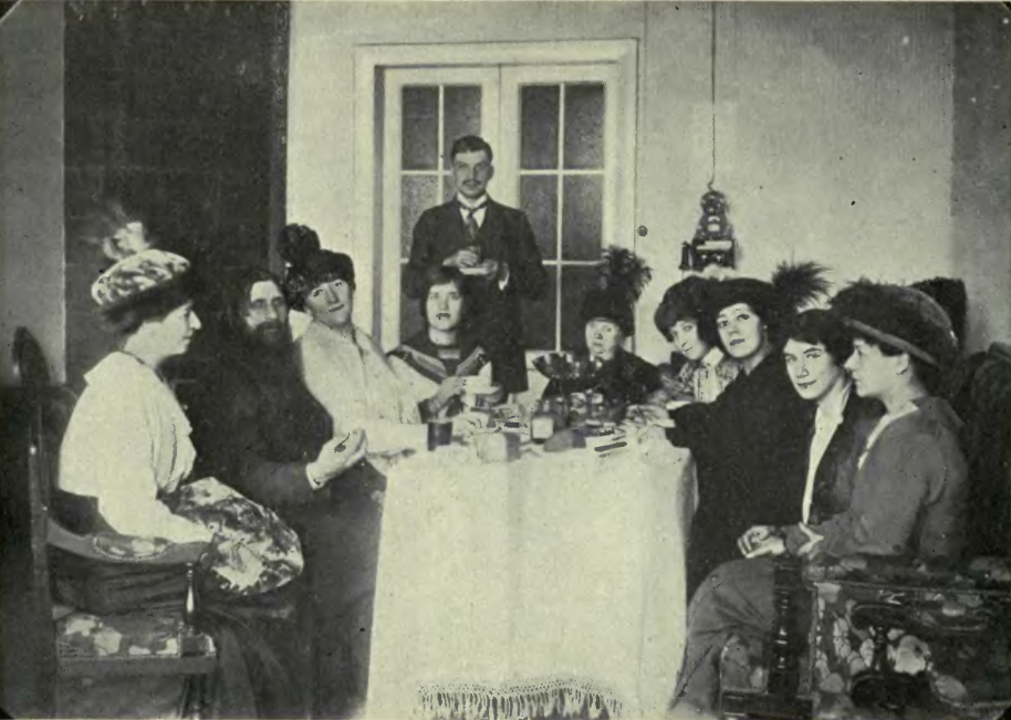 Rasputin and some of his female devotees